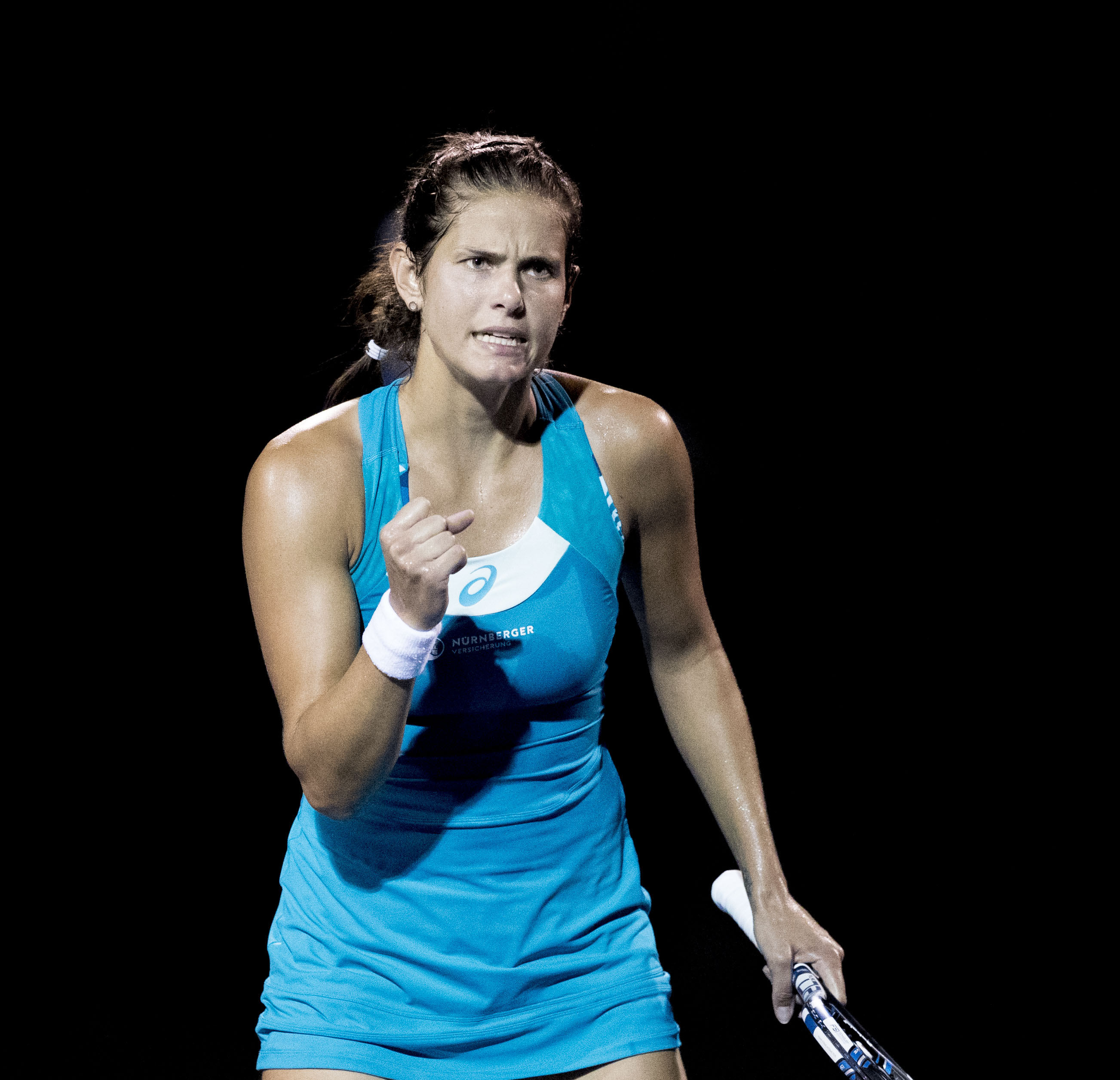 Citi Open Tennis 2017